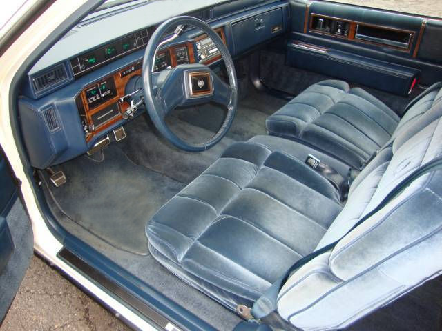 Kind of an odd array of options. Leather wrapped steering wheel, Tilt & Telescopic steering wheel, Cruise control and digital dash. Base radio, cloth seats.